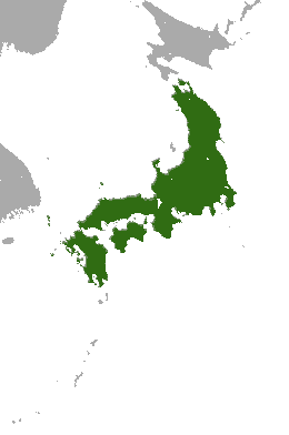 Japanese Shrew Mole (Urotrichus talpoides) range